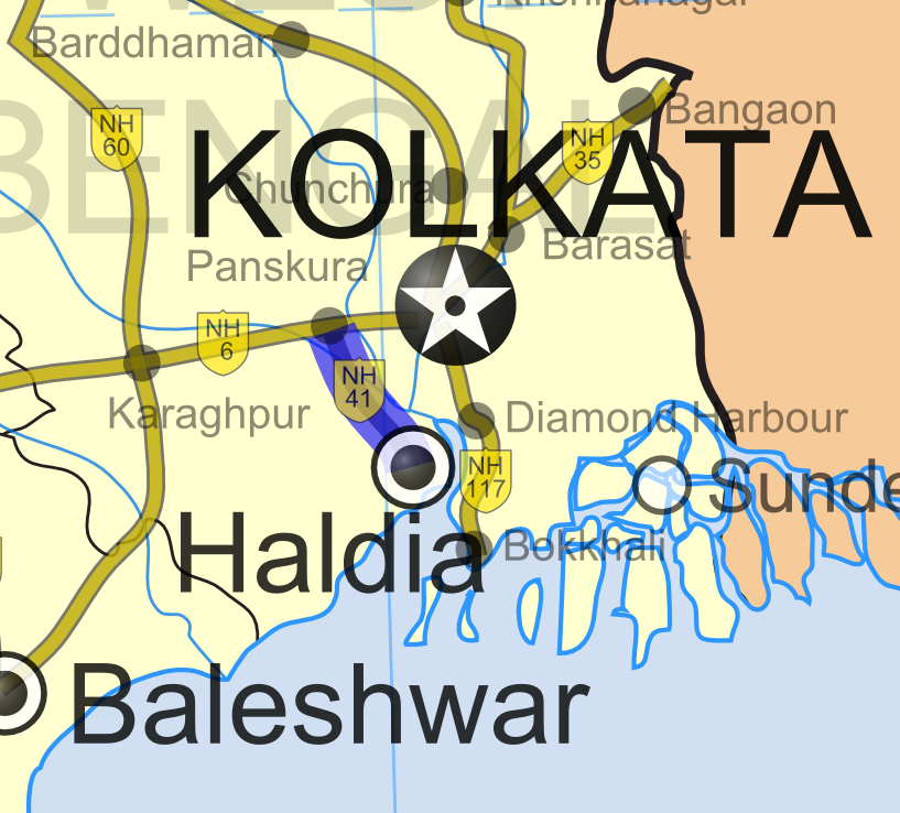 National Highway 41 in India.